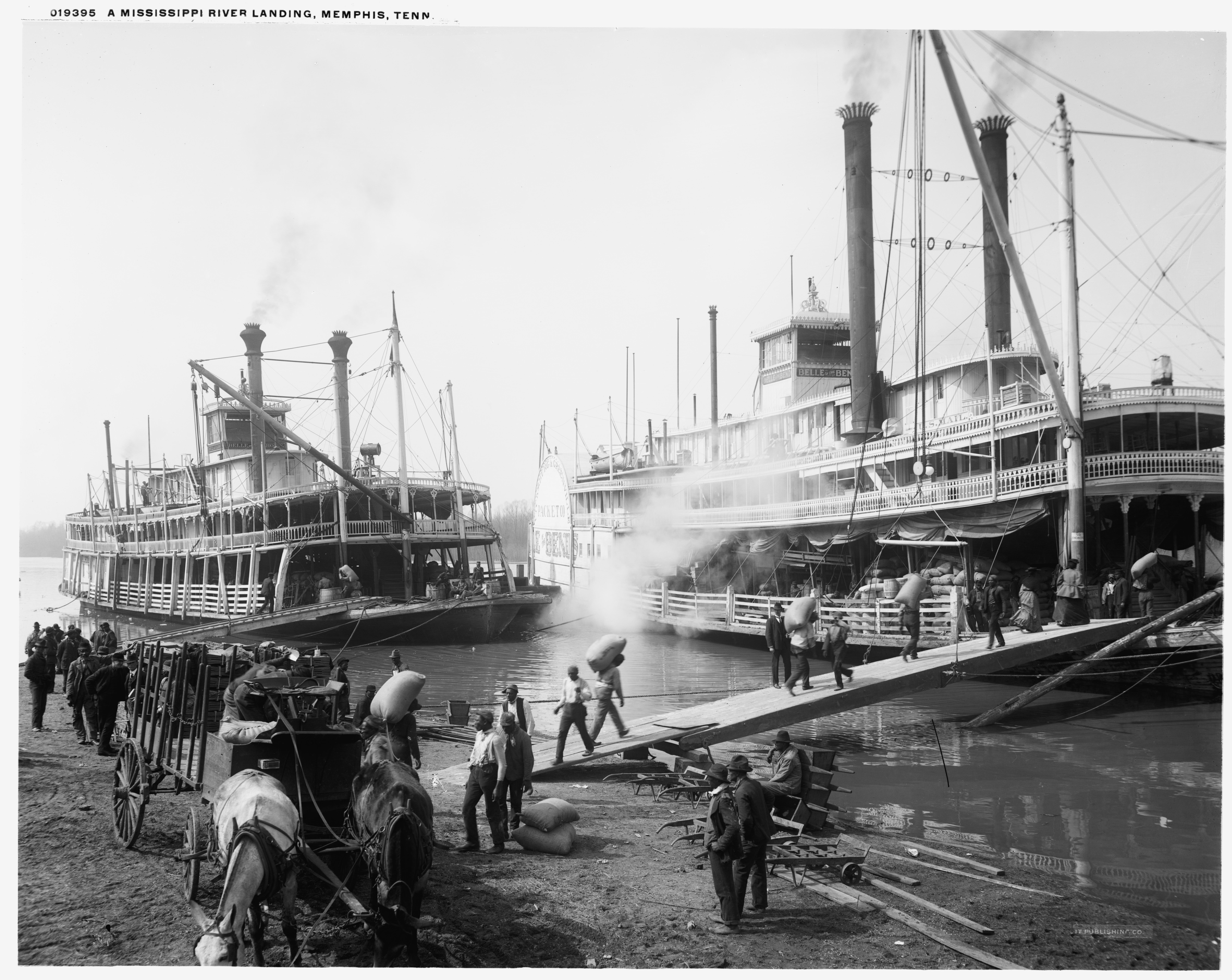 A Mississippi River landing, Memphis, Tenn.